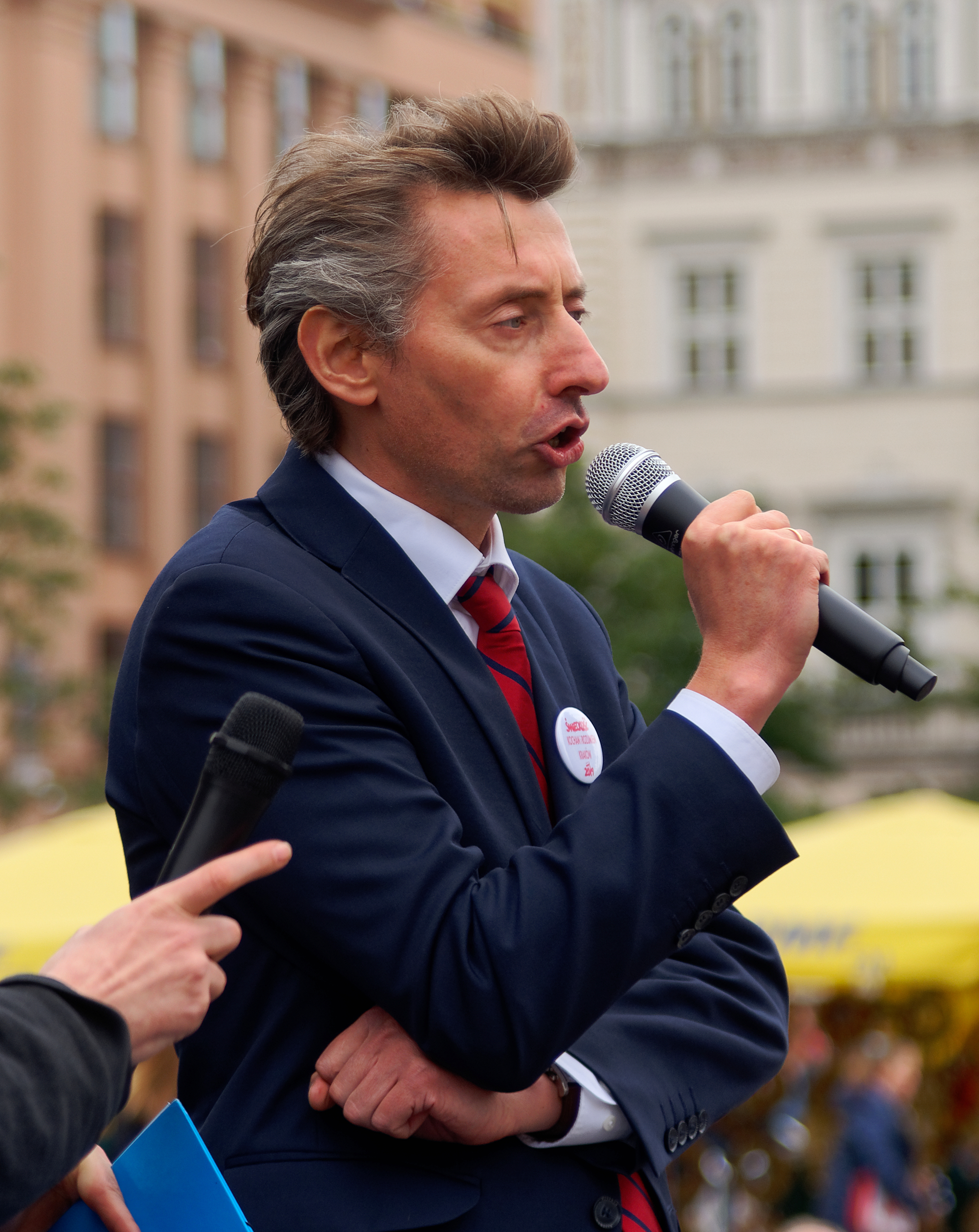 Maciej Gdula speaking at The March Of Secularity in Kraków